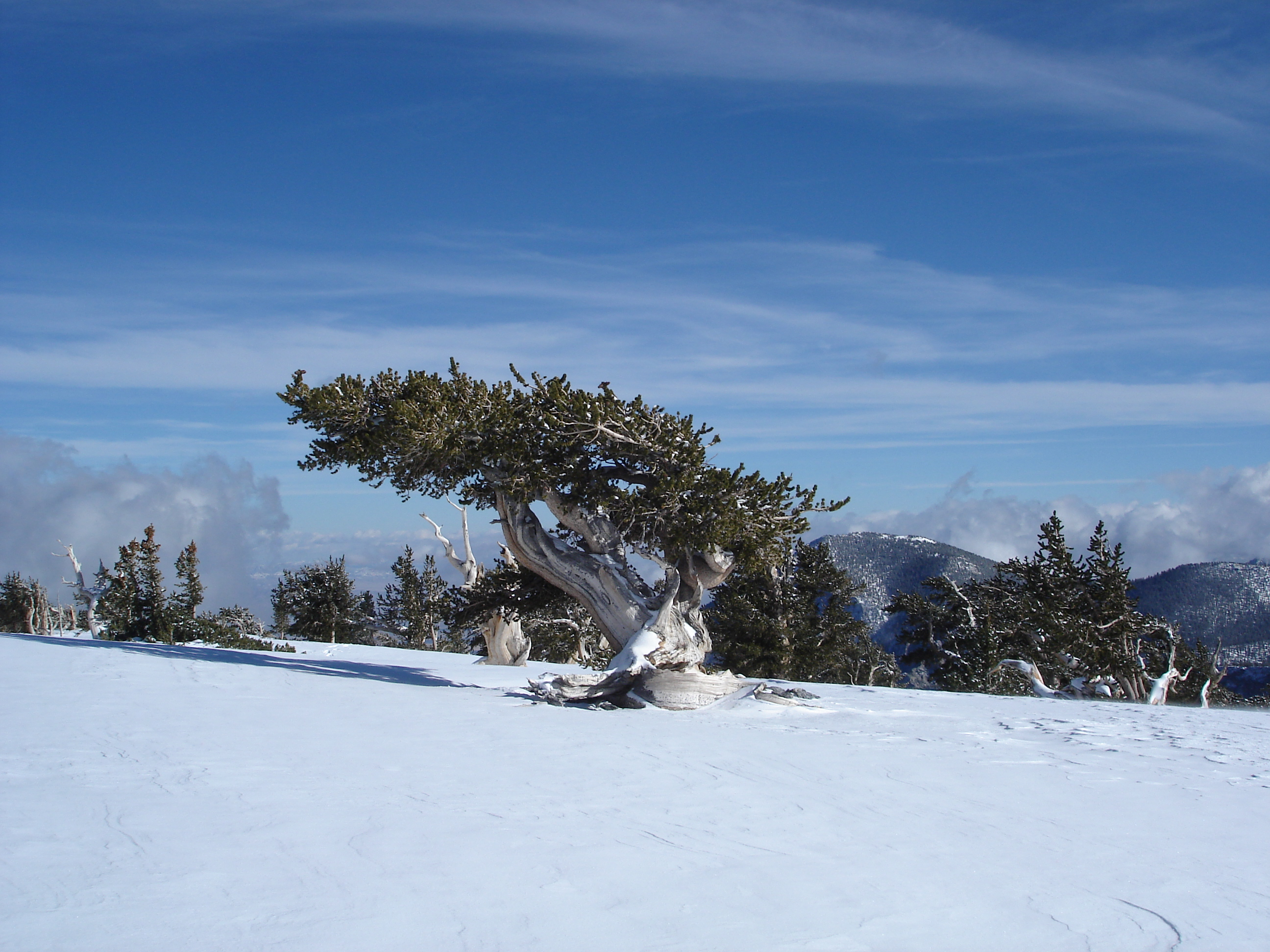 Pinus longaeva in Great Basin National Park, Nevada.